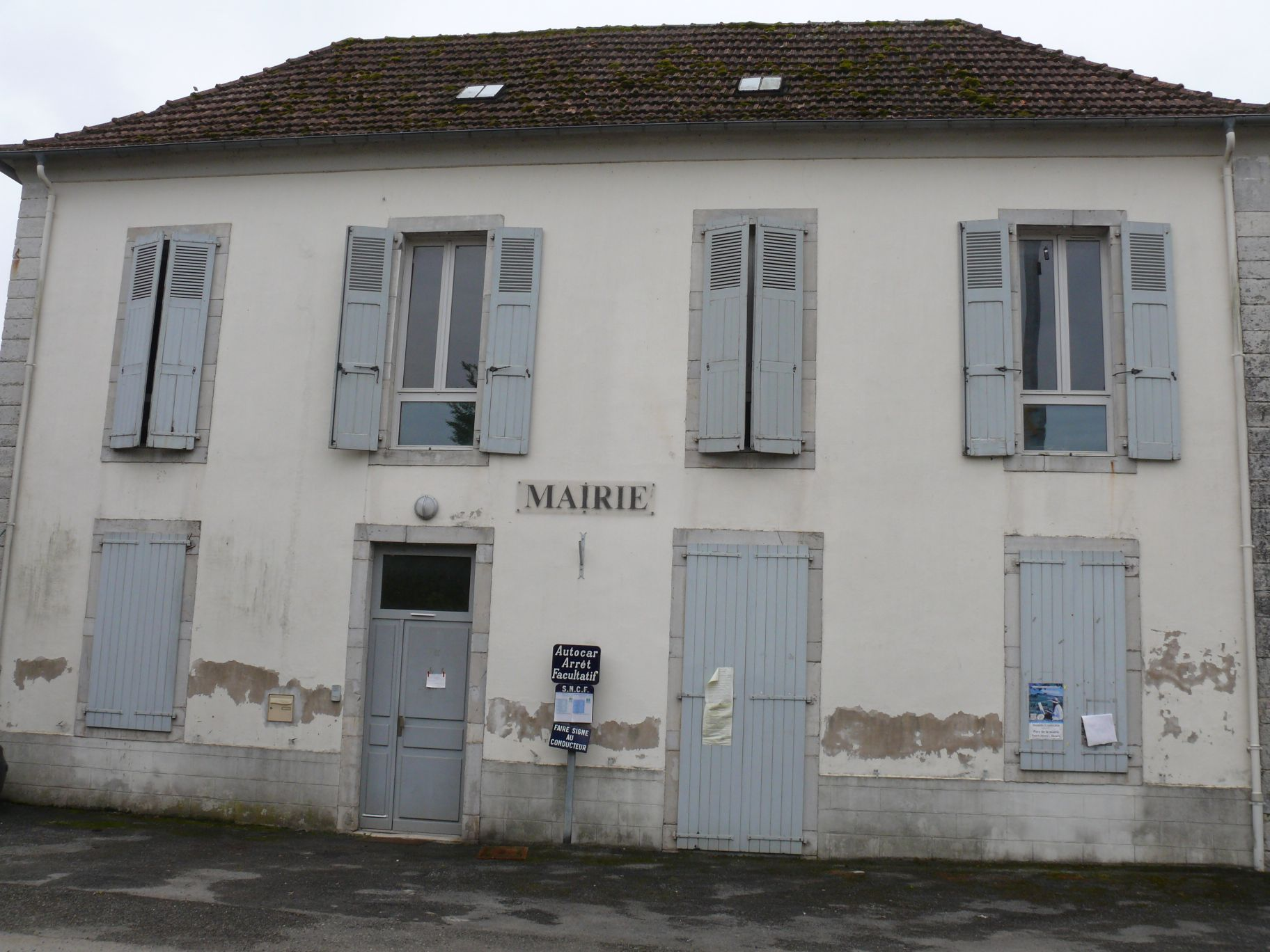 The city hall of Nabas (Pyrénées-Atlantiques, France).